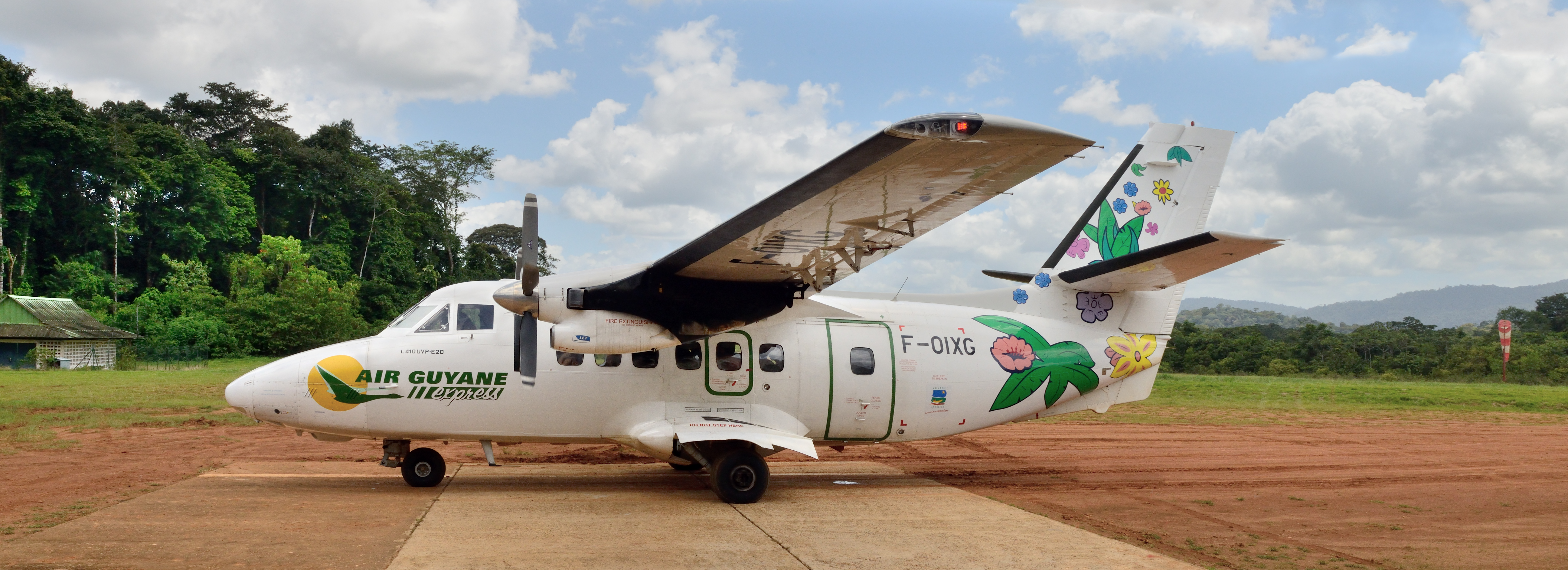 L 410 UVP-E20 of Air Guyane at the airport of Saül in French Guiana in April 2013.